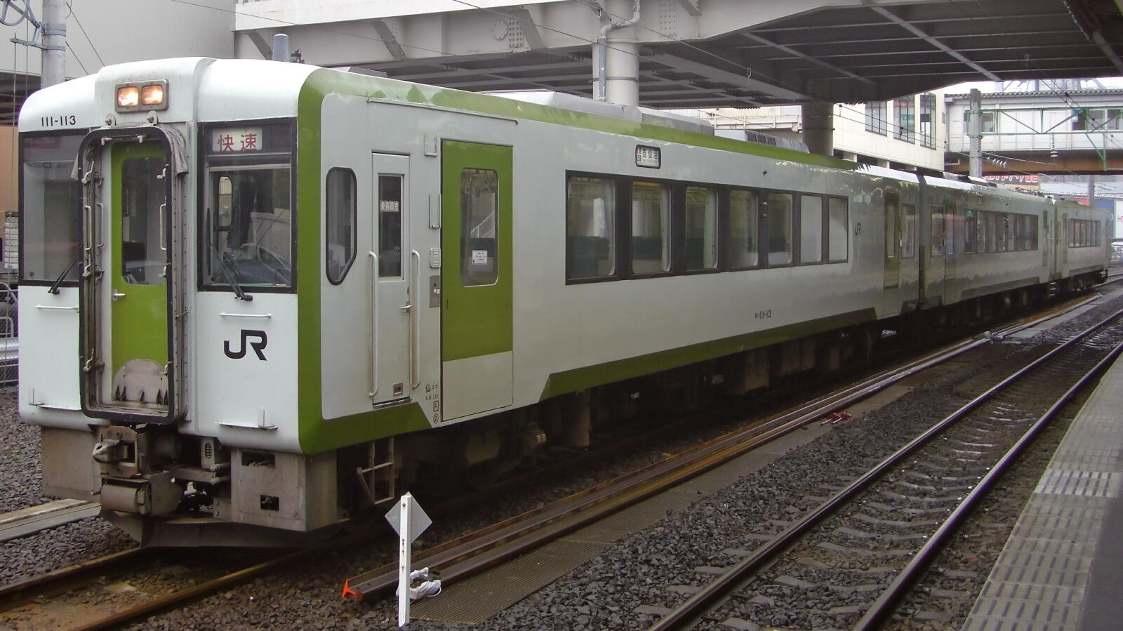 JR East Kiha111-100 DMU at Sendai Station